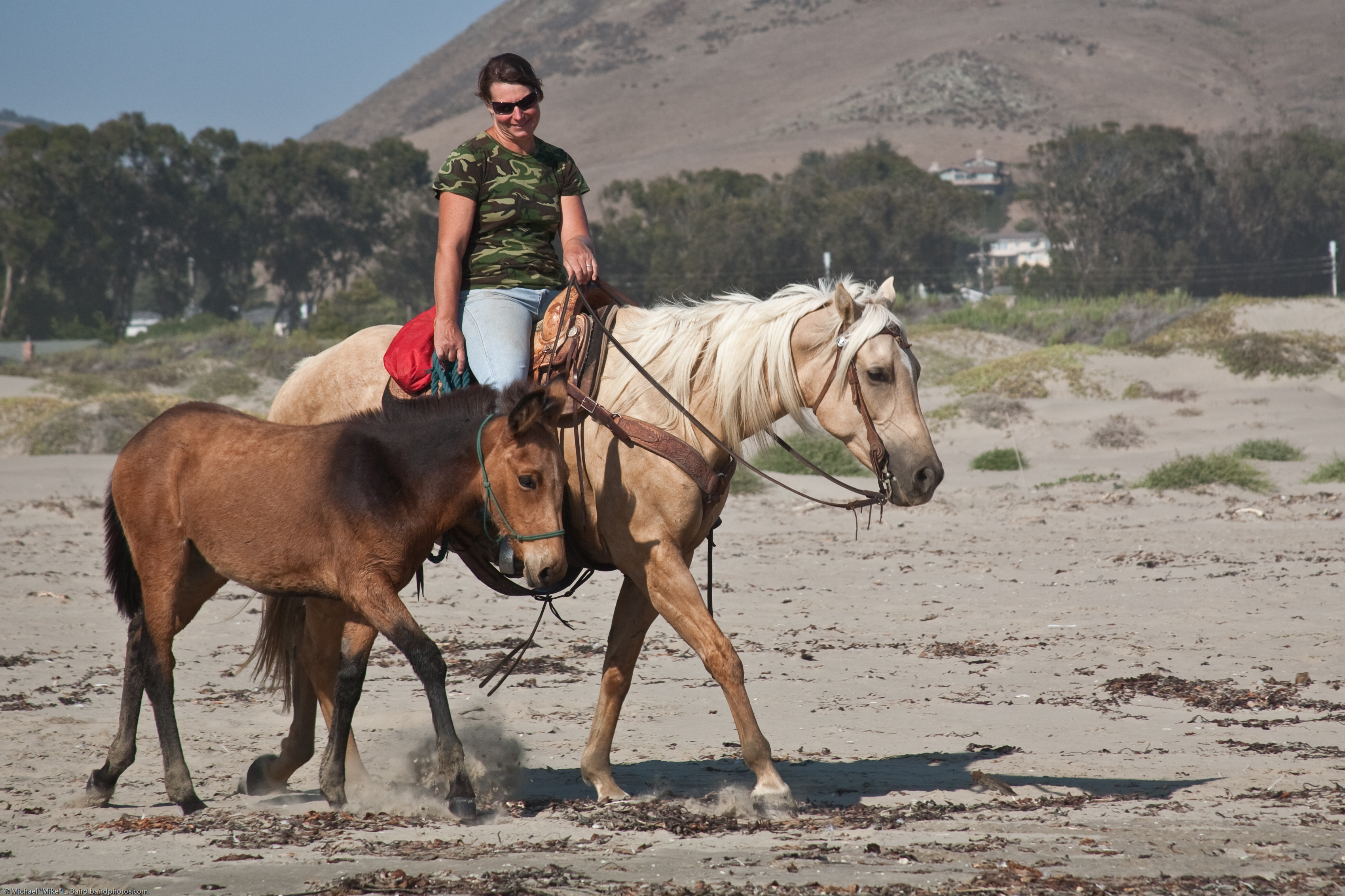 Female equestrian riding her beautiful horse with her foal aside her land looking at it with a feeling of love on Morro Strand State Beach on a hot day inland, 29 August 2009. Photo by Michael "Mike" L. Baird, mike at} mikebaird d o t com, ; Canon 5D, Canon EF 28-135mm f/3.5-5.6 IS Lens, circular polarizer, handheld.